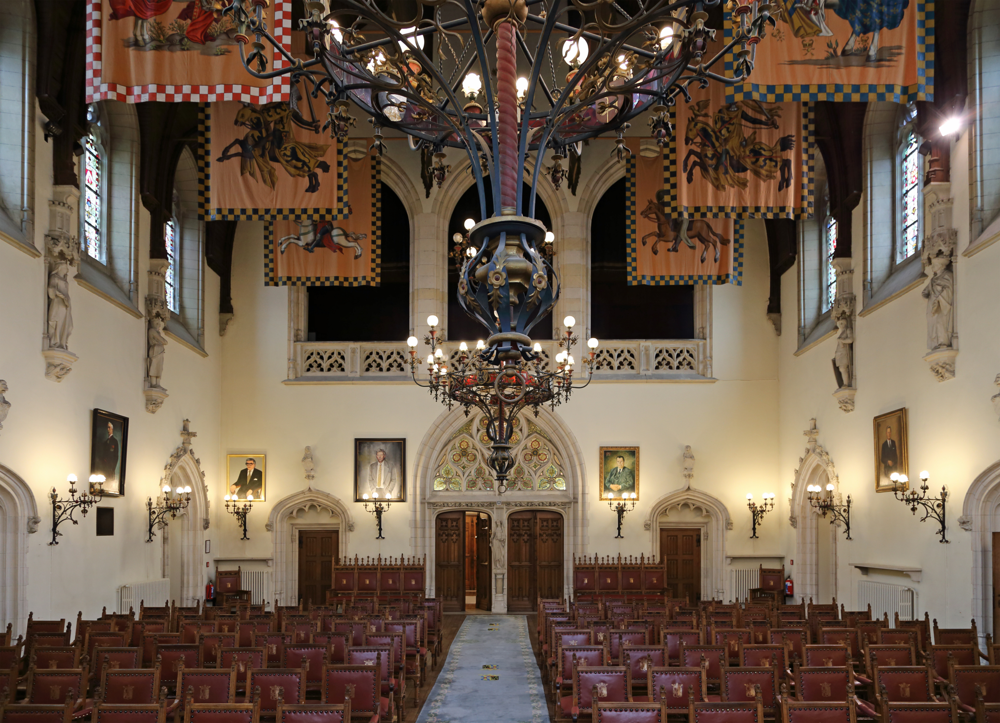 Bruges (Belgium): Provincial Hall, former council chamber